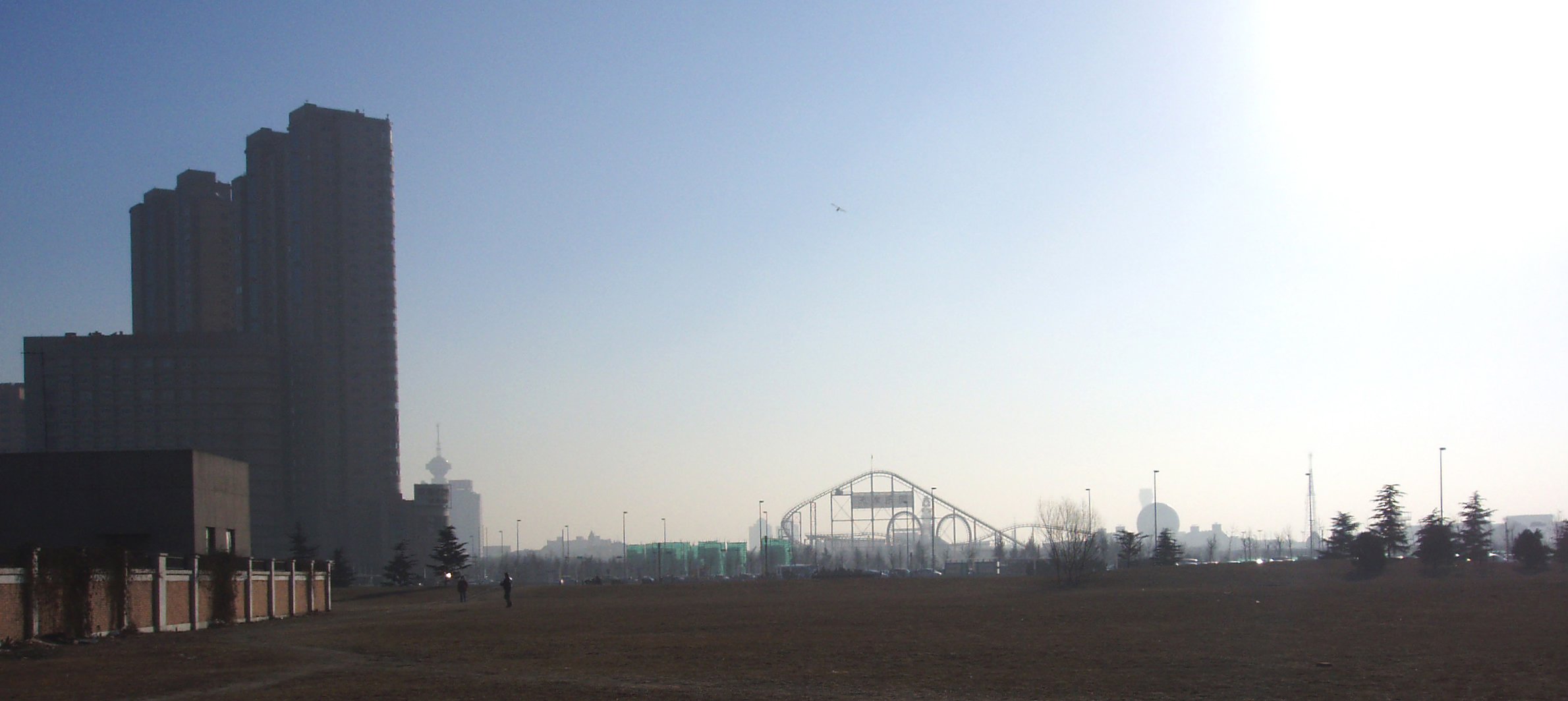 Tianjin recreational area, China